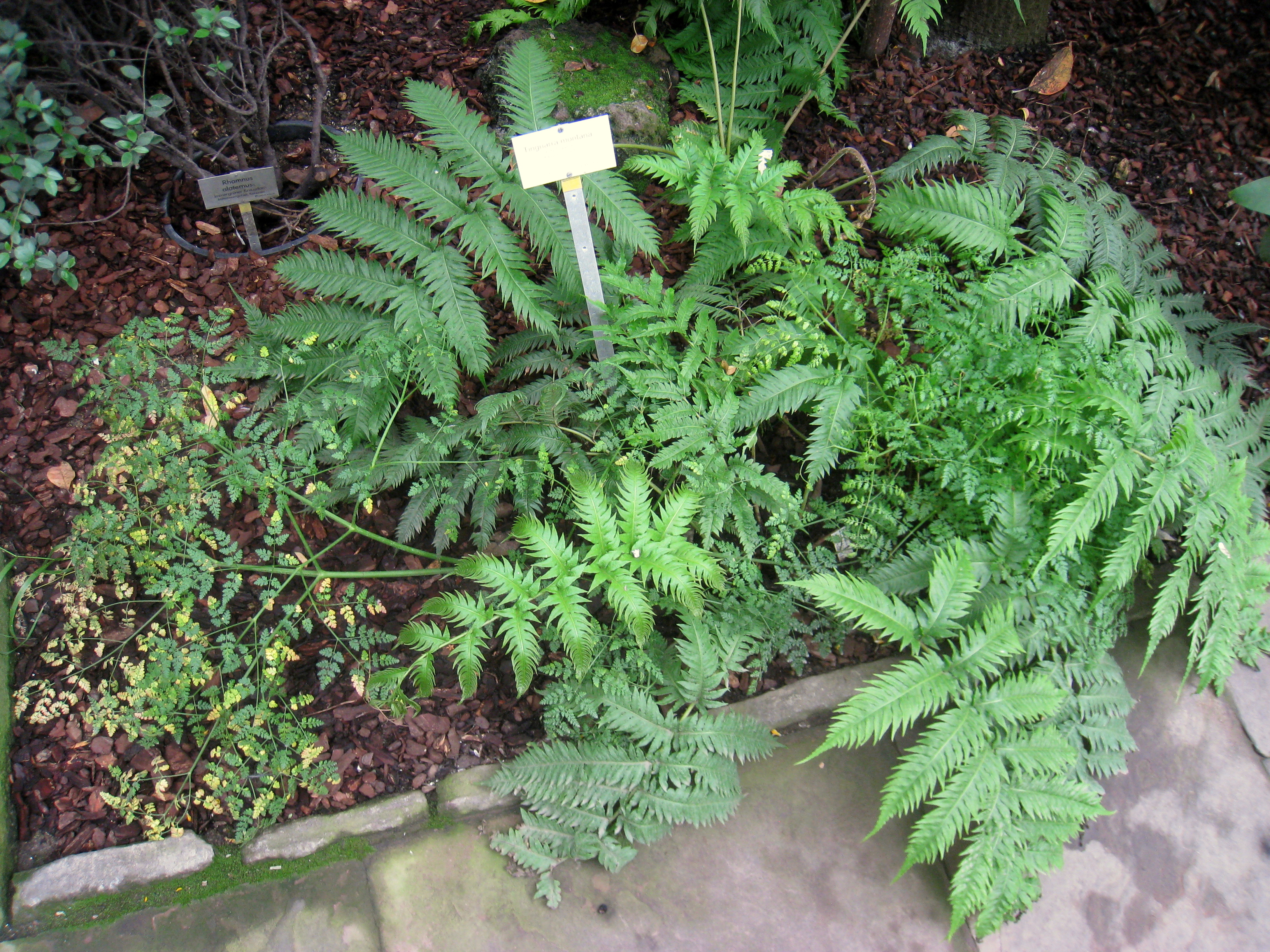 Tinguarra montana specimen in the Botanischer Garten, Berlin-Dahlem (Berlin Botanical Garden), Berlin, Germany.